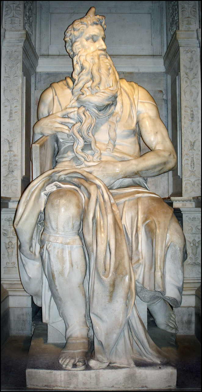 Michelangelo's Moses. San Pietro in Vincoli, Rome